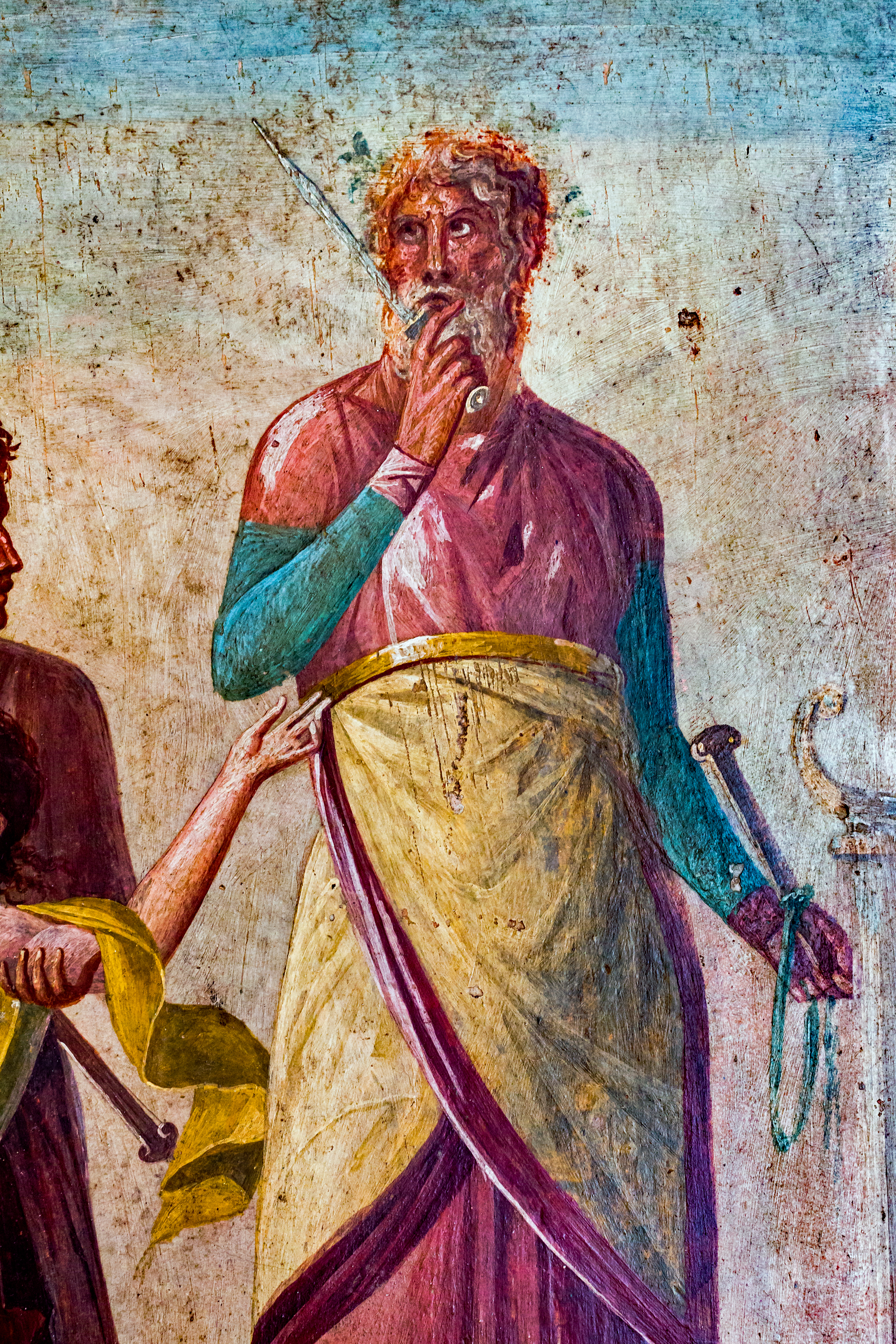 object type: wall painting (fresco) - description: a woman (Klytaimnestra?) mourning, Iphigenia is carried away to the sacrifice by two servants, following Agamemnon; in the sky the fawn which will replace Iphigenia is prepared - period / date: fourth style of pompeian wall painting - height: 140 cm - width: 138 cm - findspot: Pompeii VI, 8, 5, house of the tragic poet, peristylium (10) - museum / inventory number: Napoli, Museo Archeologico Nazionale 9112 - Please note: The above museum permits photography of its exhibits for private, educational, scientific, non-commercial purposes. If you intend to use the photo for any commercial aim, please contact the museum and ask for permission.